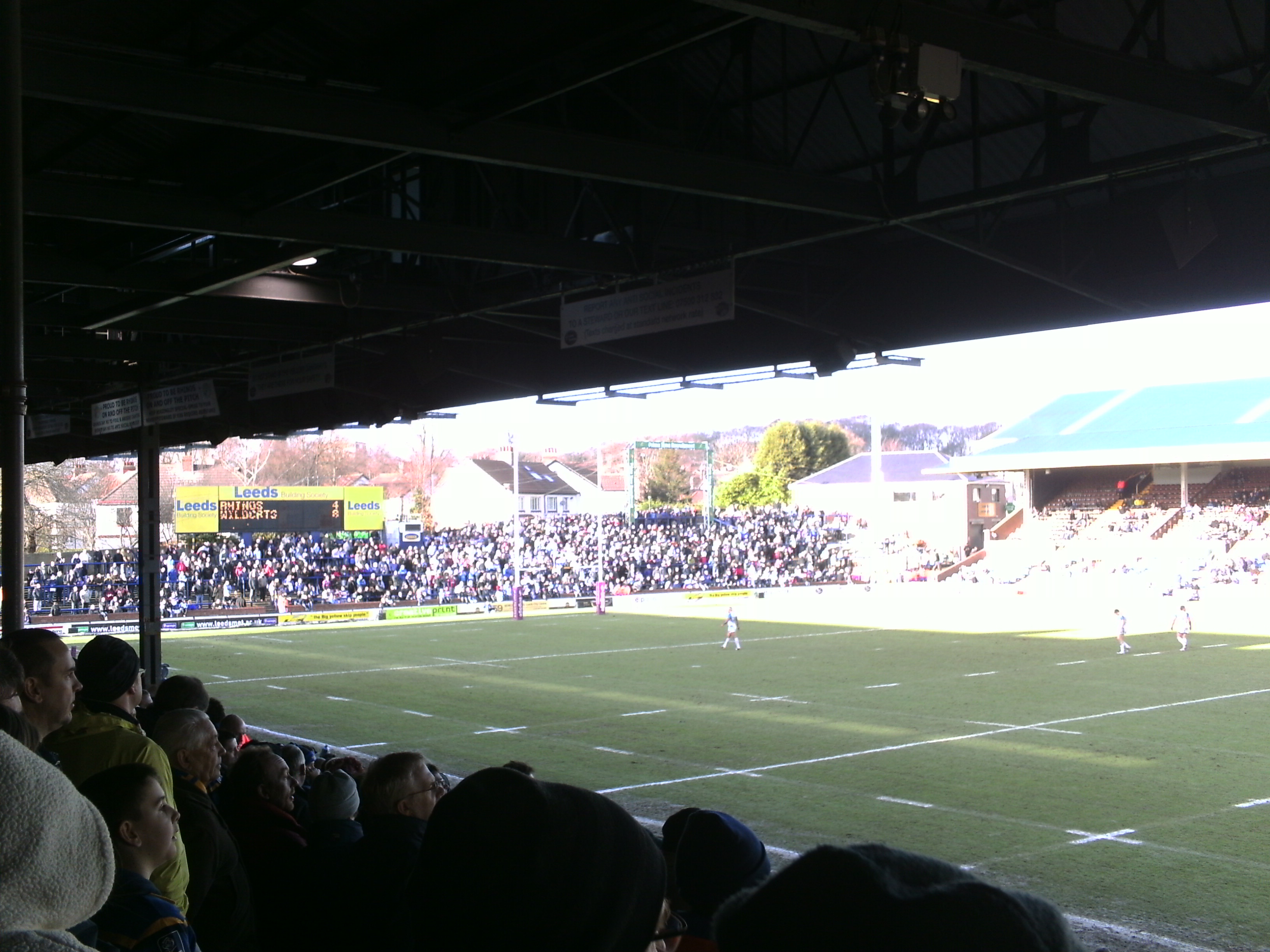 The Western terraces at Headingley Stadium, Leeds.